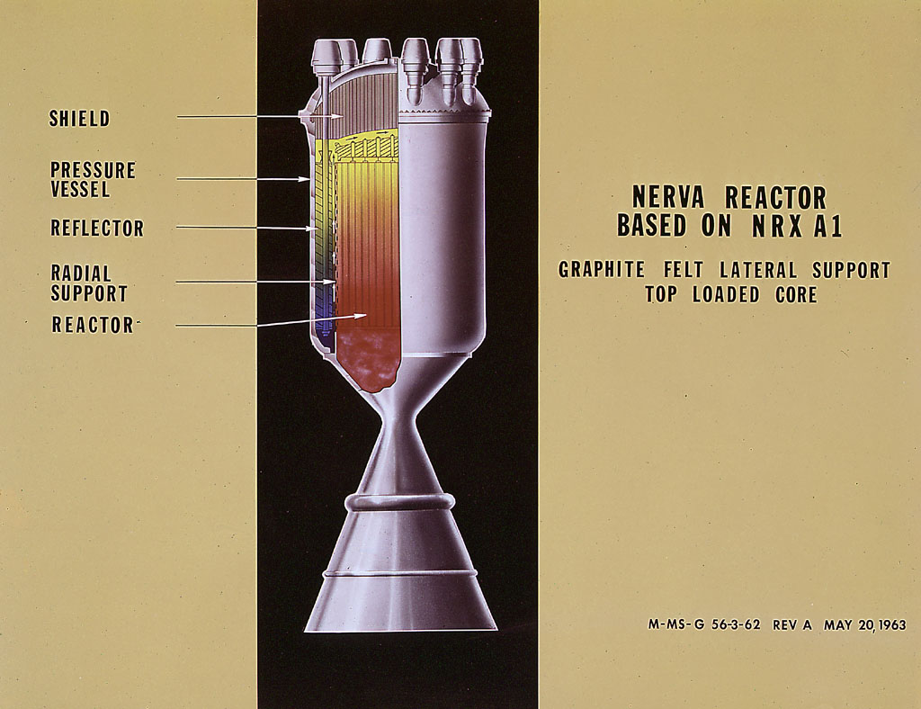 NERVA Reactor Based on NRX A1 This artist's concept from 1963 shows a proposed NERVA (Nuclear Engine for Rocket Vehicle Application) incorporating the NRX-A1, the first NERVA-type cold flow reactor. The NERVA engine, based on Kiwi nuclear reactor technology, was intended to power a RIFT (Reactor-In-Flight-Test) nuclear stage, for which Marshall Space Flight Center had development responsibility.